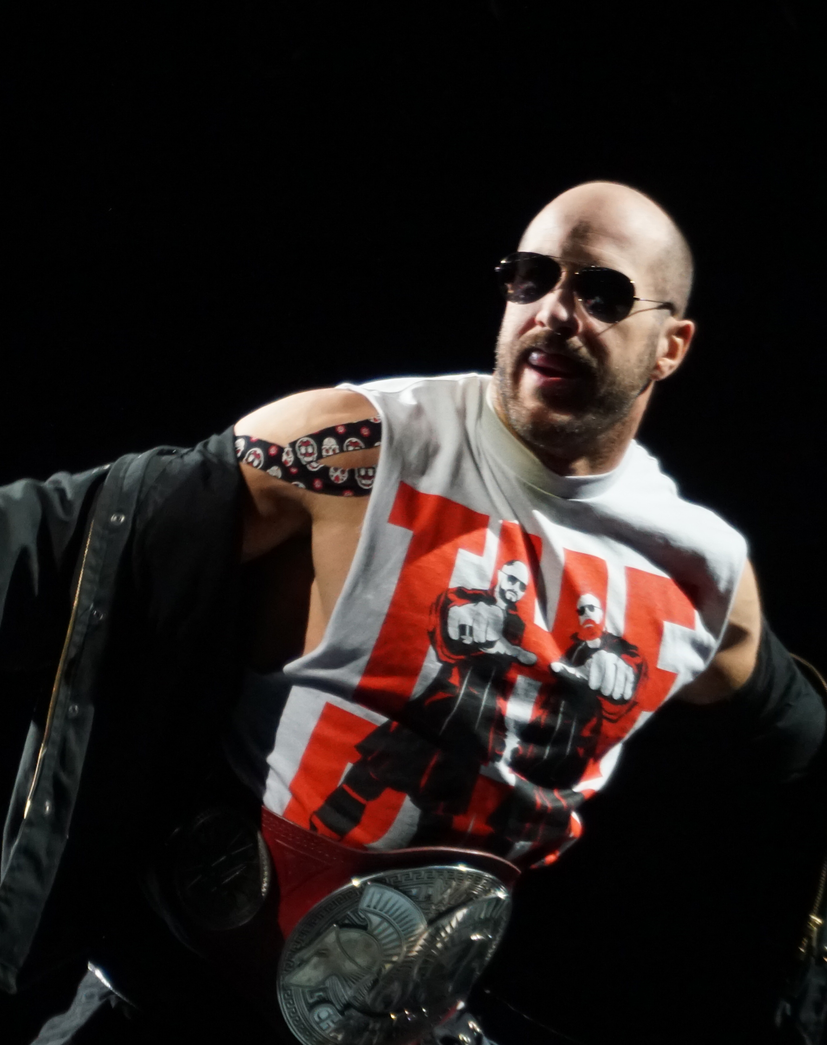 Cesaro at the WWE live show in Buffalo, NY on March 25th, 2018